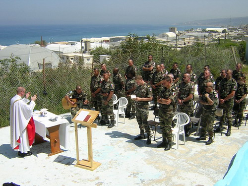 Easter catholic mass in South Lebanon with French contingent- 2004